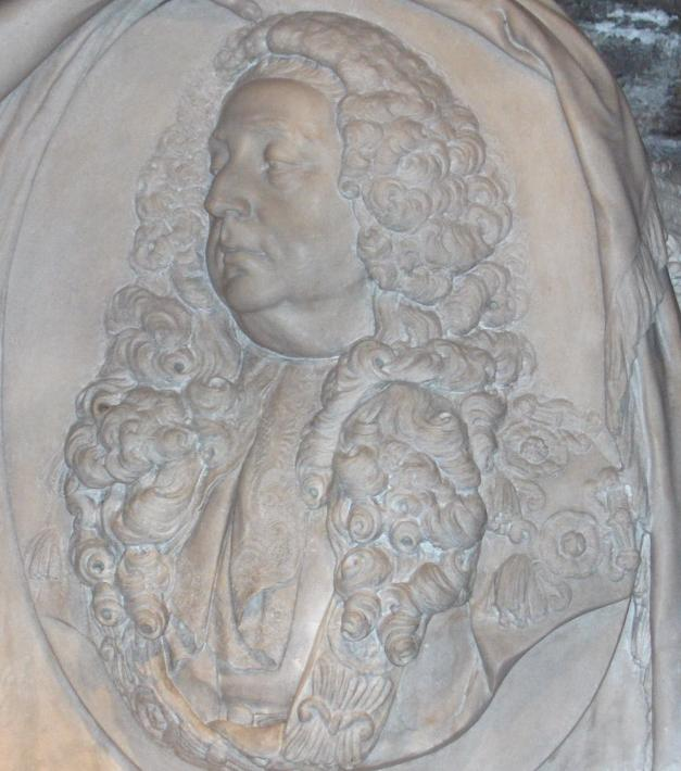 Bust of John Bowes on display in the crypt of Christ Church Cathedral